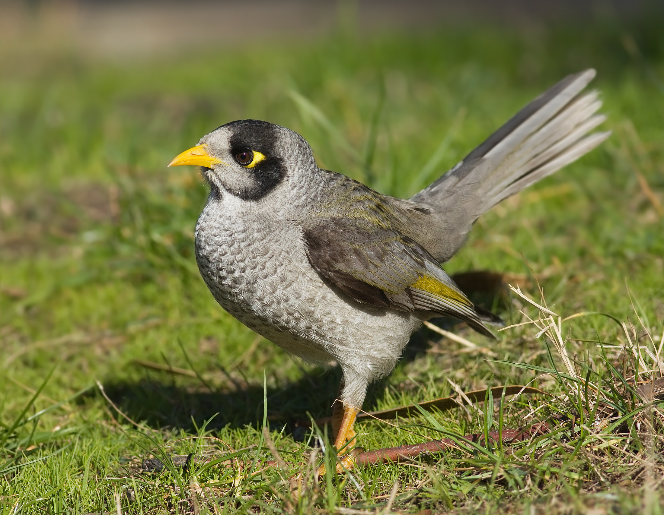 Noisy miner (Manorina melanocephala), Queen's Domain, Hobart, Tasmania, Australia